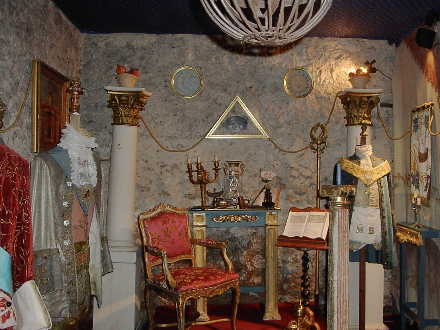 18th century masonic items at the Château de Mongenan (Portets, Gironde, France)